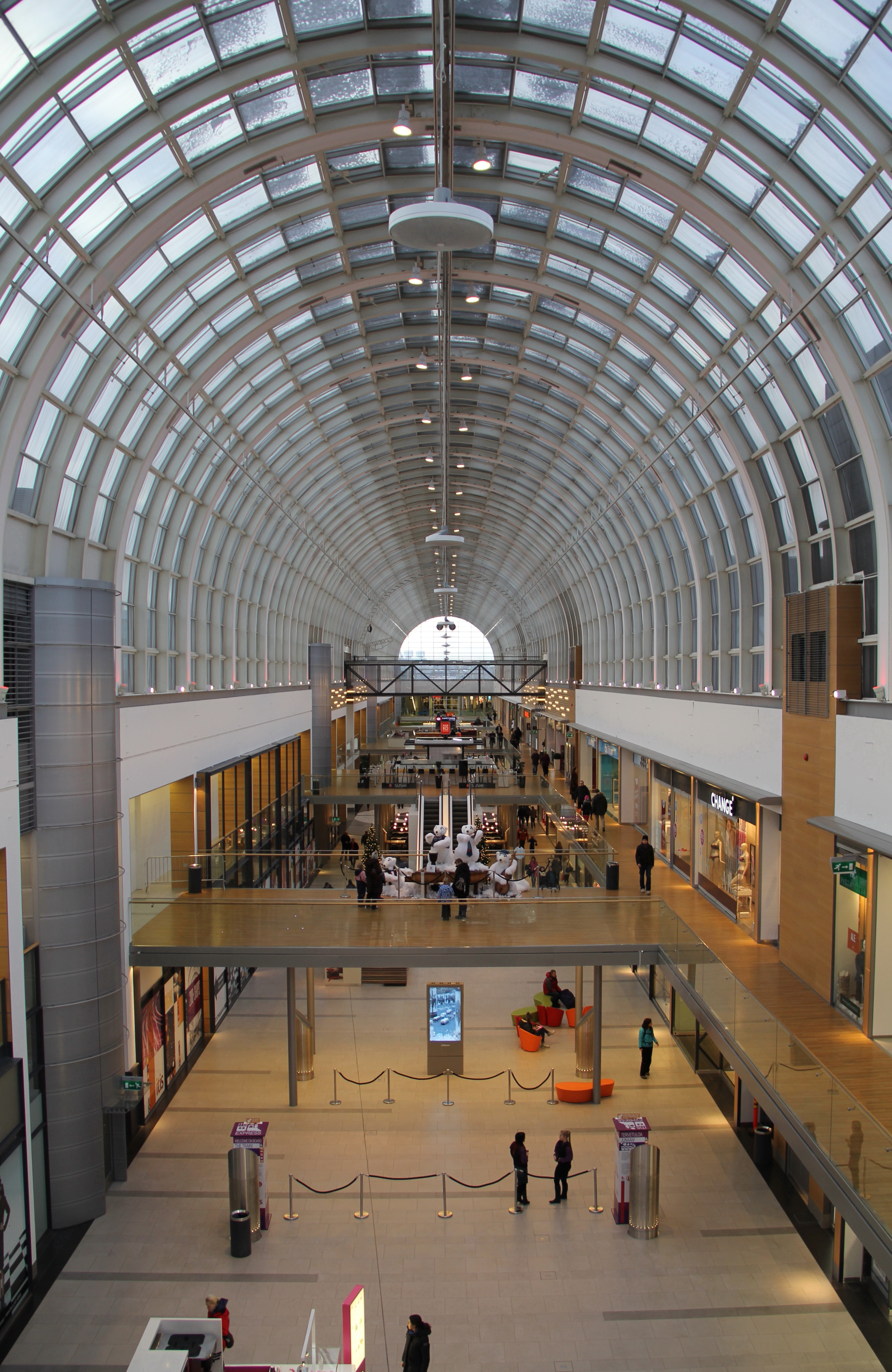 Shopping mall Itis in Helsinki, Finland. Arcade Bulevardi, seen from 3rd floor.